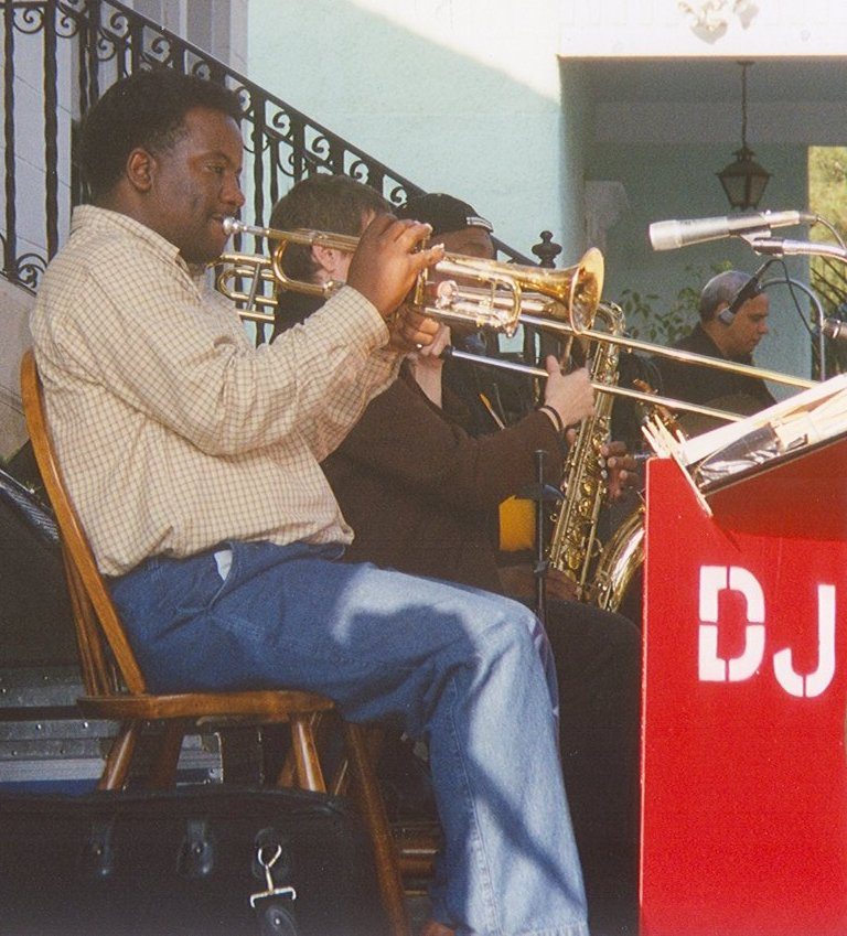 Trumpet player with the Deacon John Moore Band, New Orleans Photo by Infrogmation, 5 Feb 2005.